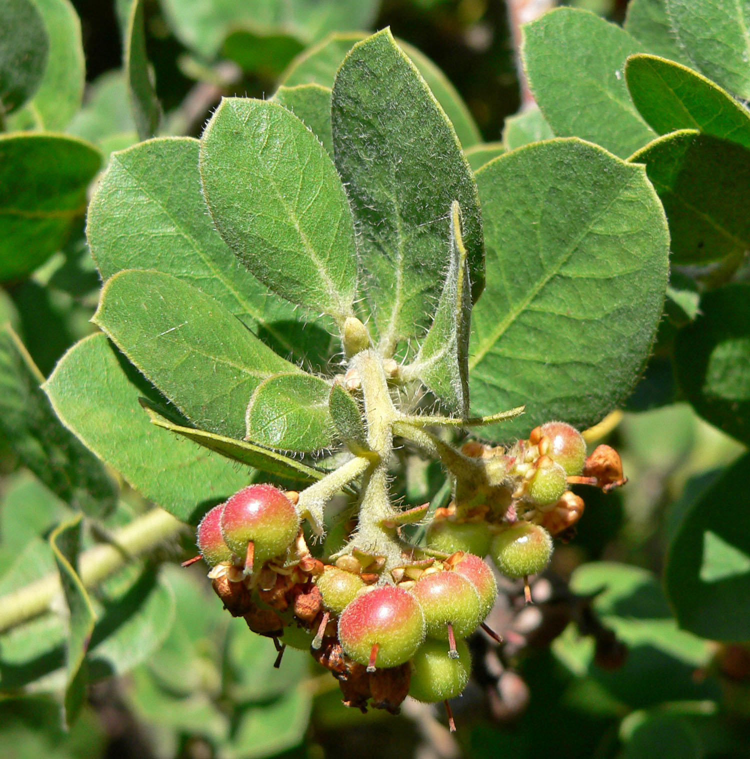 Photo of Arctostaphylos confertiflora at the Regional Parks Botanic Garden, Berkeley, California